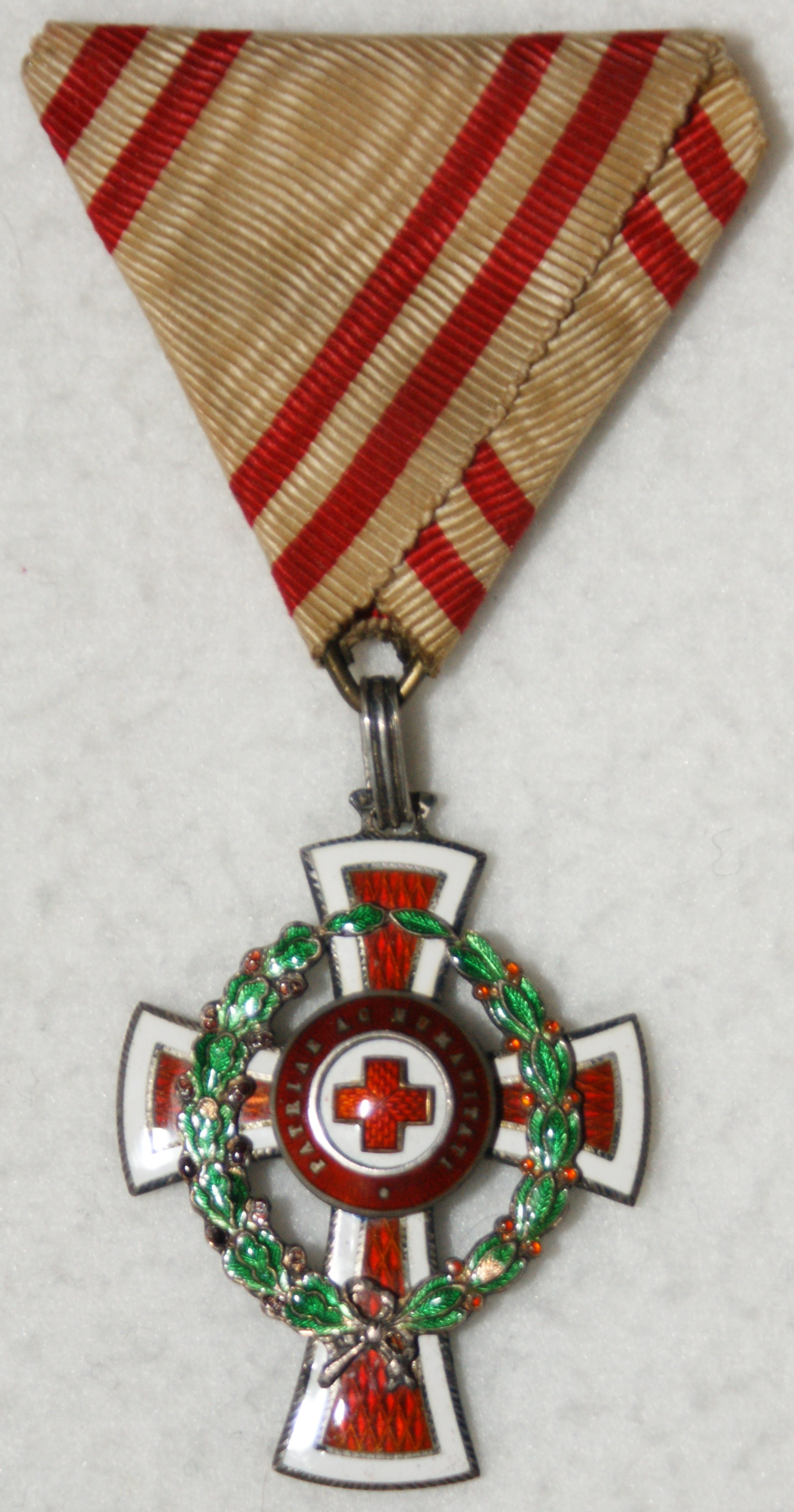 Austrian Order of Merit of the Red Cross (1914), front